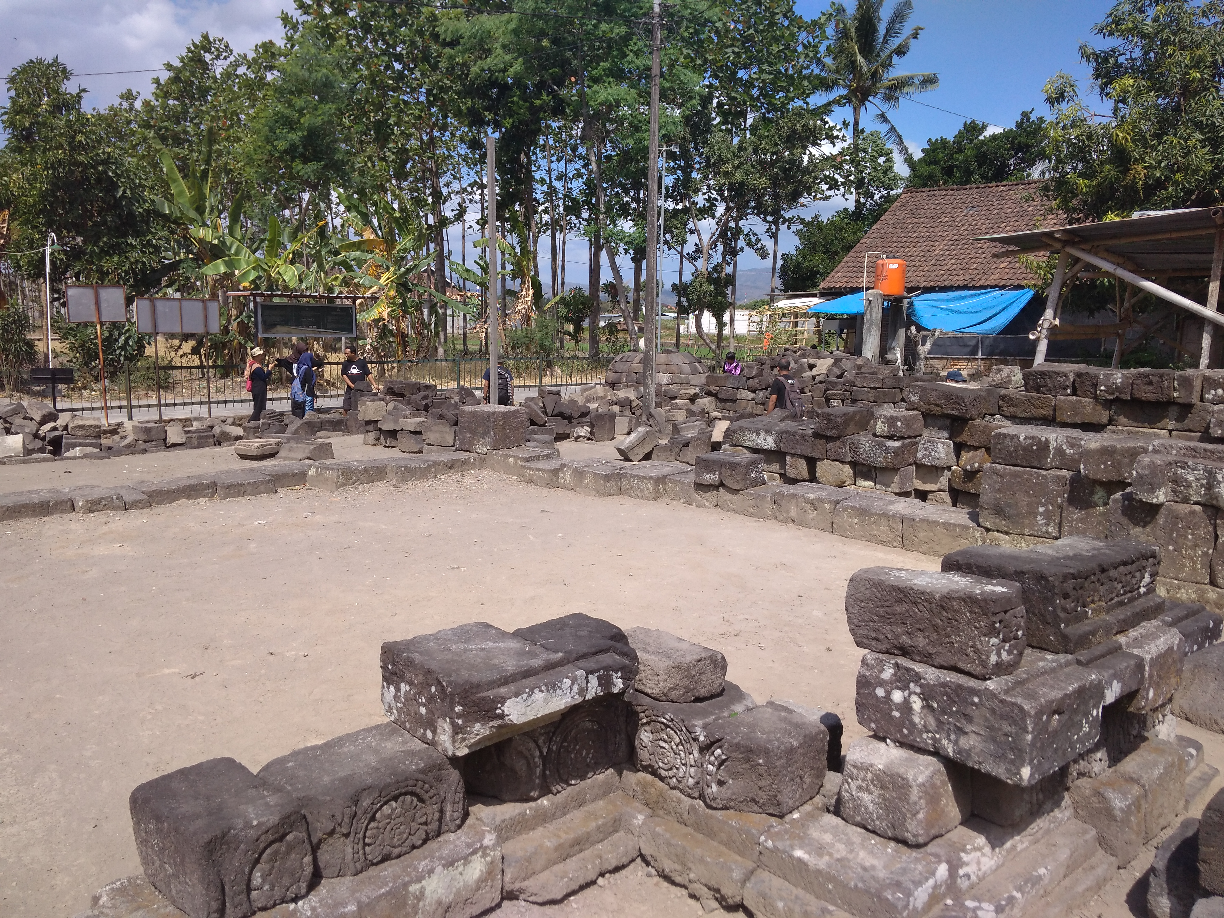 This is the ruins of Gana Temple in Klaten